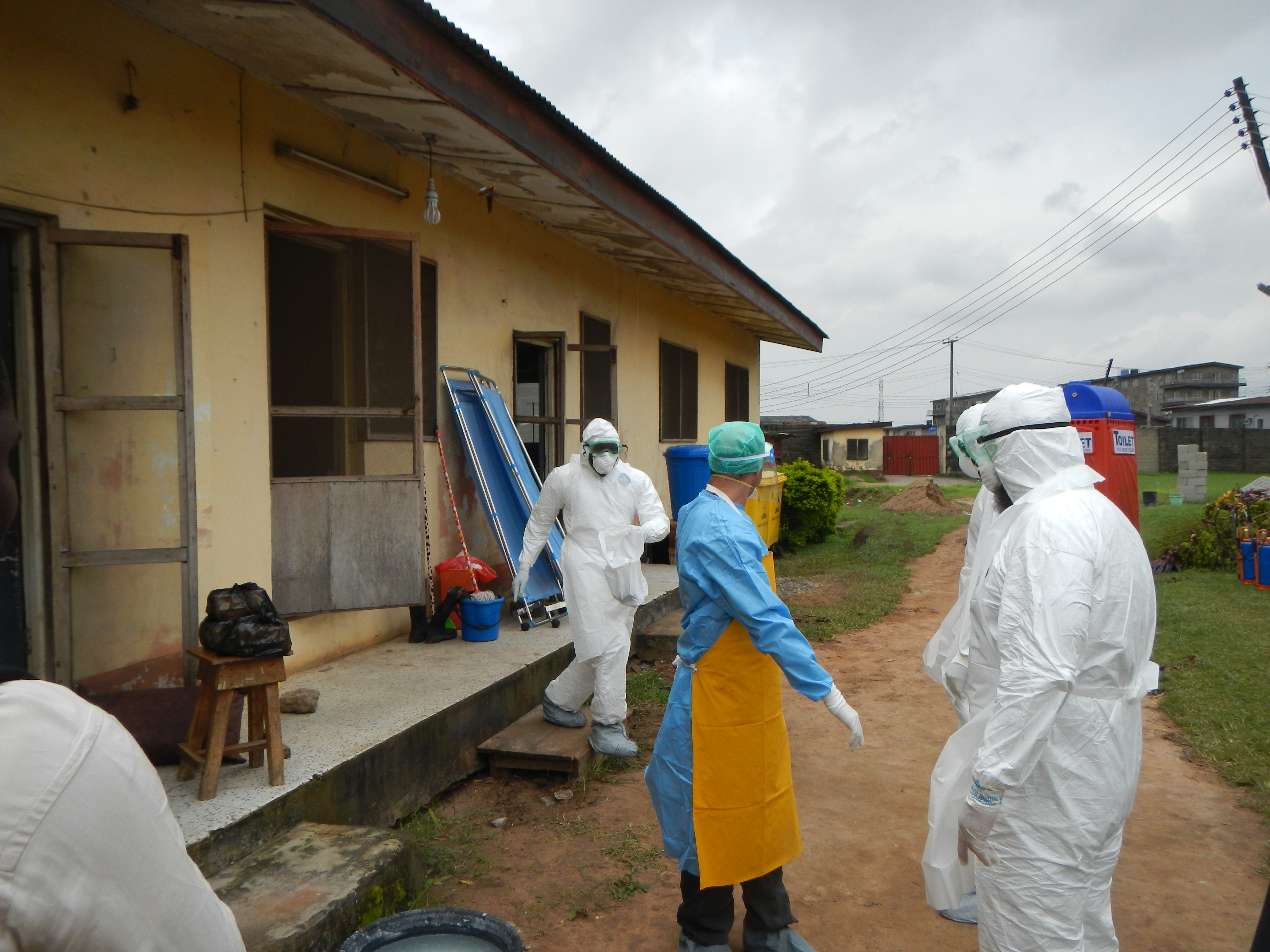 World Health Organization workers gearing up to go into old Ebola isolation ward in Lagos, Nigeria. A hot zone is an area where patients are being treated and where occupants are at highest risk of being infected. Photographer: Bryan Christensen. For more information on Ebola and what CDC is doing, please visit